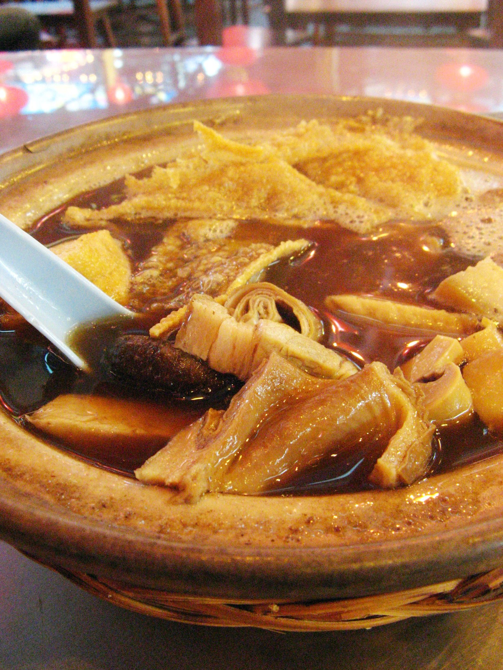 A soup cooked with herbs , and famous in malaysia